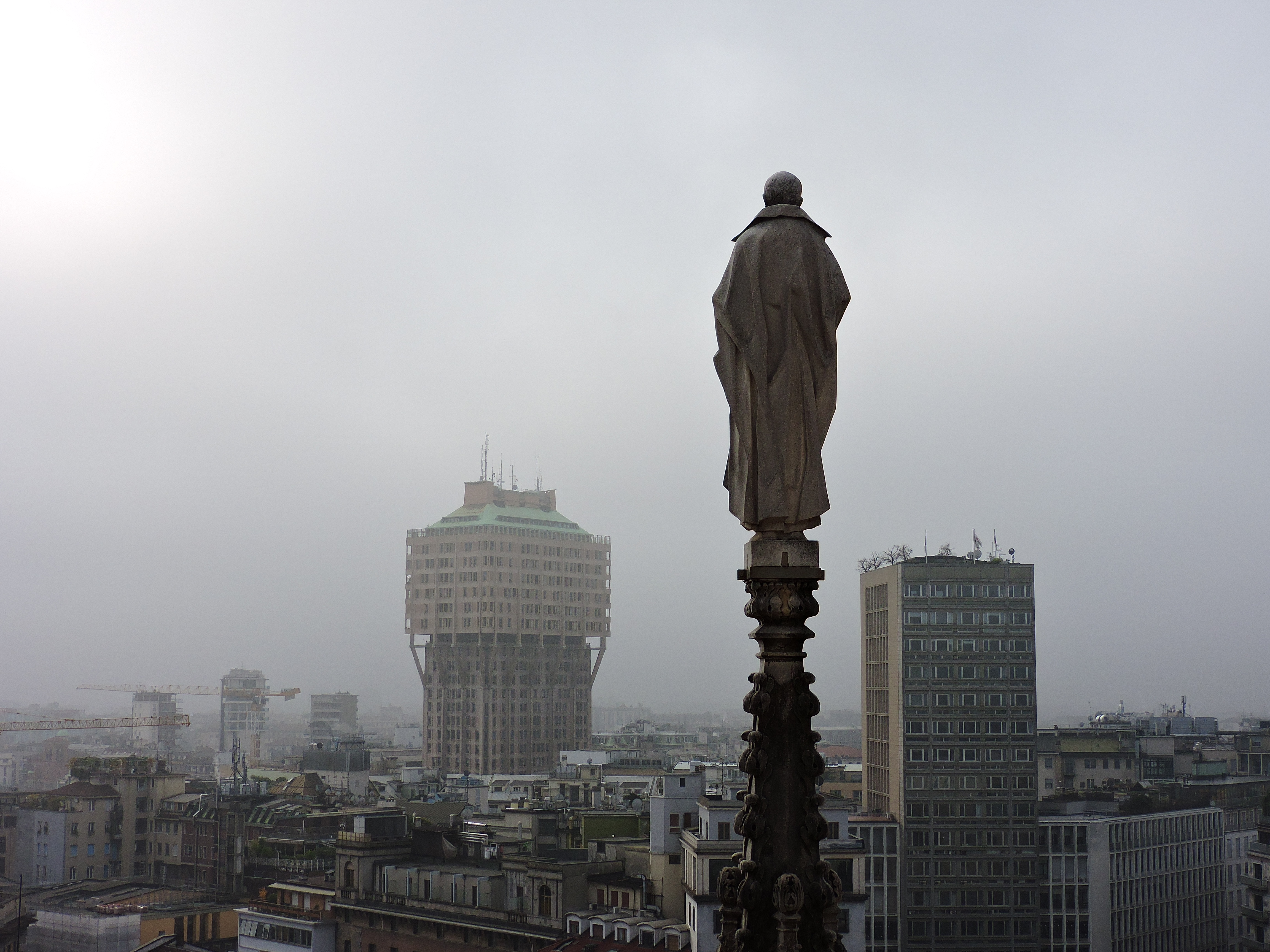 Panorama of Milan in a foggy day featuring Velasca Tower (Torre Velasca).